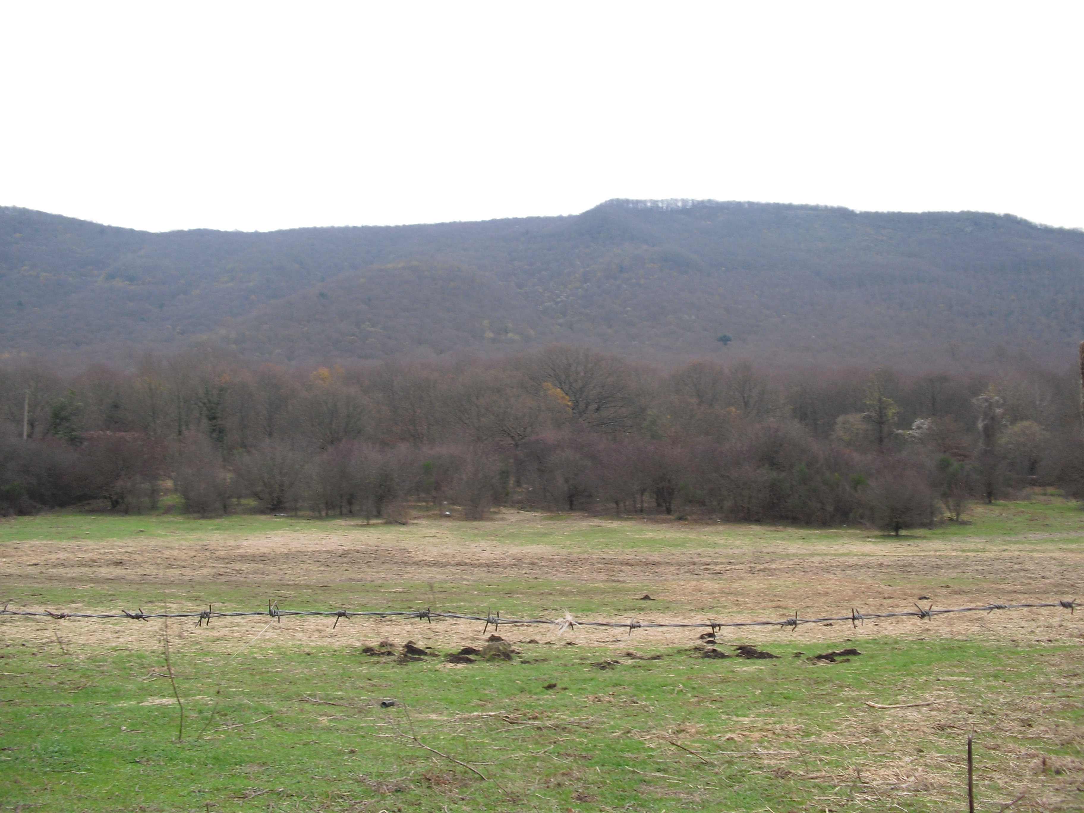 A picture of the Vivaro Romano near Rome, Italy.